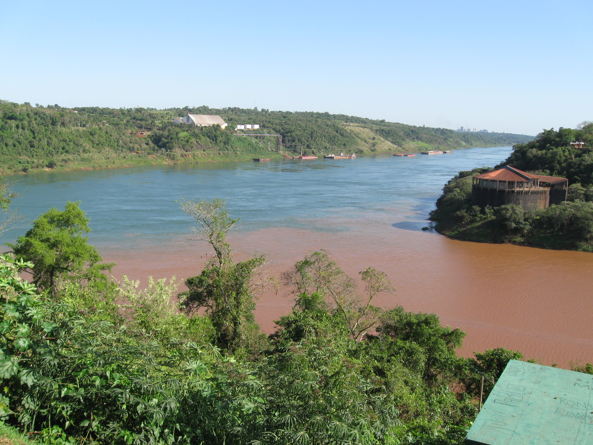 Cross between Paraná and Iguazú rivers.